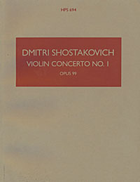 The cover of the musical score Dmitri Shostakovich (1957) Violin Concerto No. 1, Opus 99 [Hawkes Pocket Scores; 694], London: Boosey & Hawkes OCLC: 494002009. The work is more commonly known today as Opus 77.